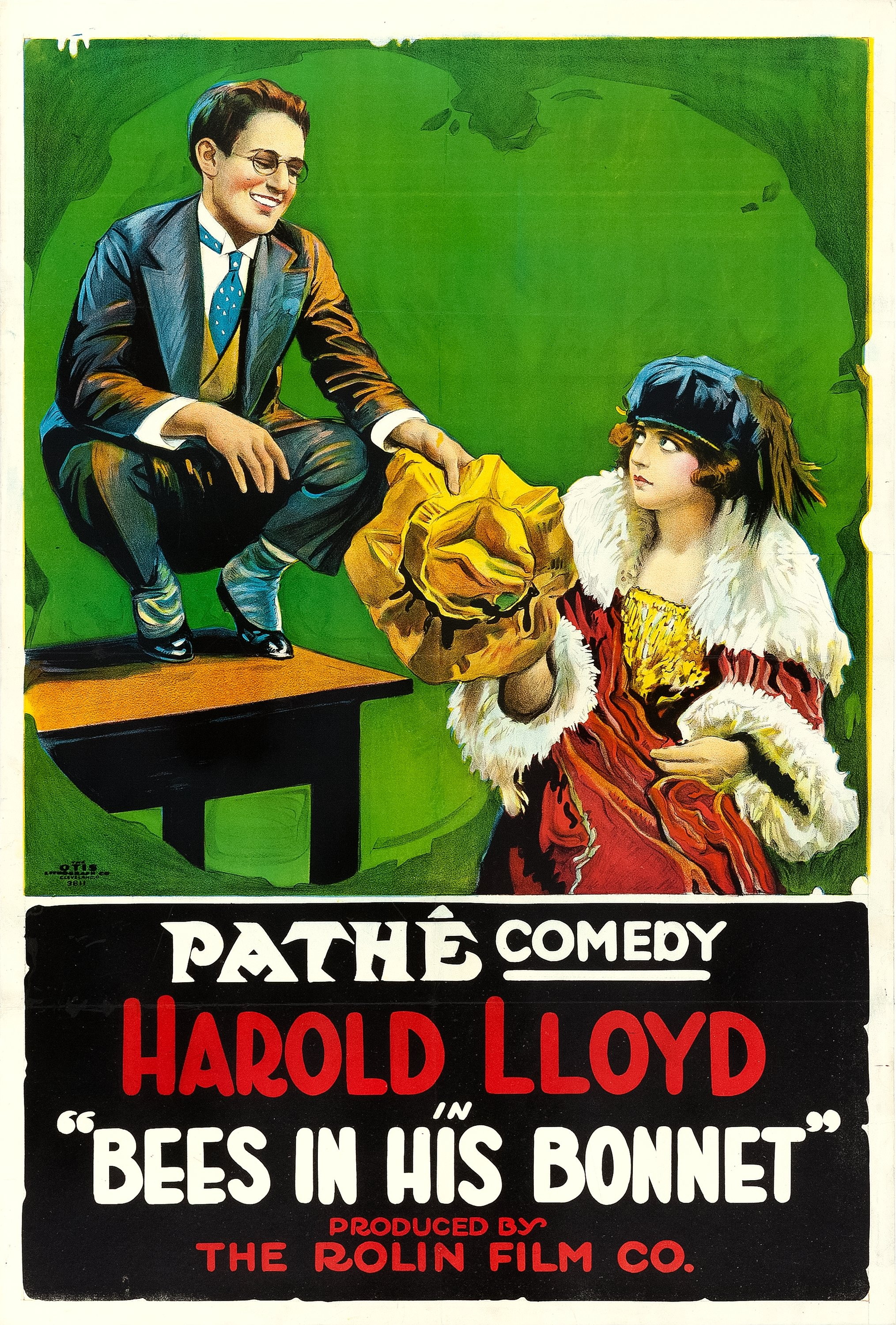 Bees in His Bonnet (Pathe, 1918). One Sheet (28 X 41).